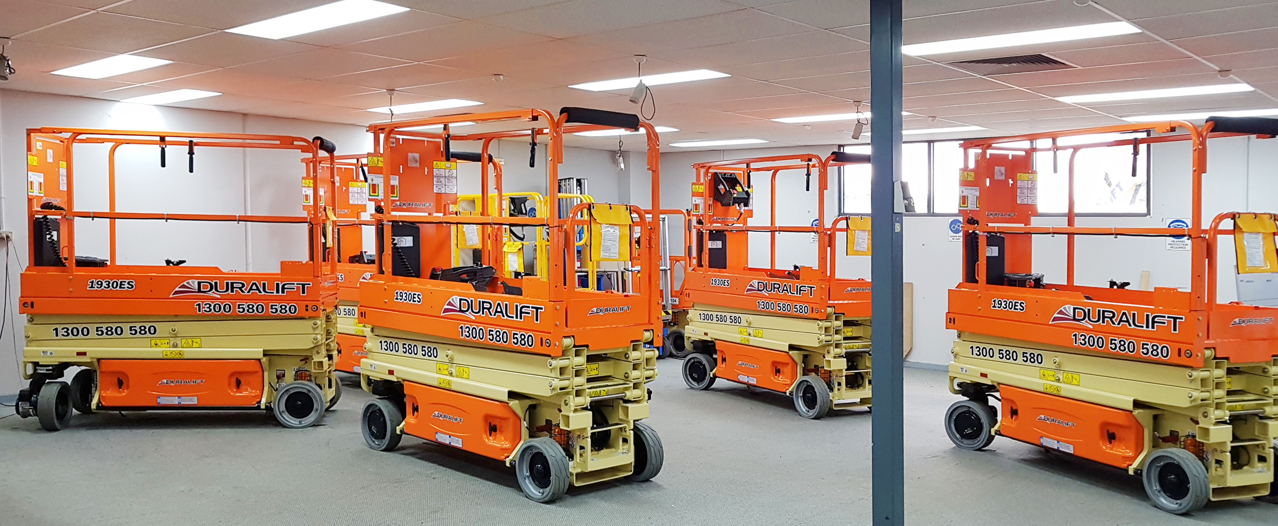 JLG scissor lifts 1930es, at Duralift Access Hire in Melbourne Australia